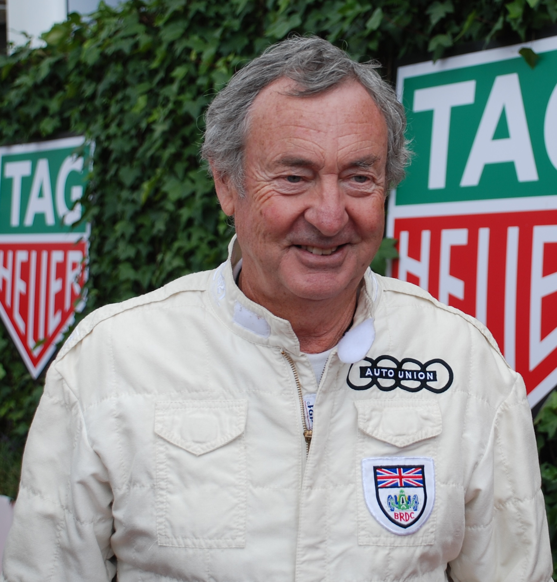 Nick Mason at the 2016 Goodwood Festival of Speed.